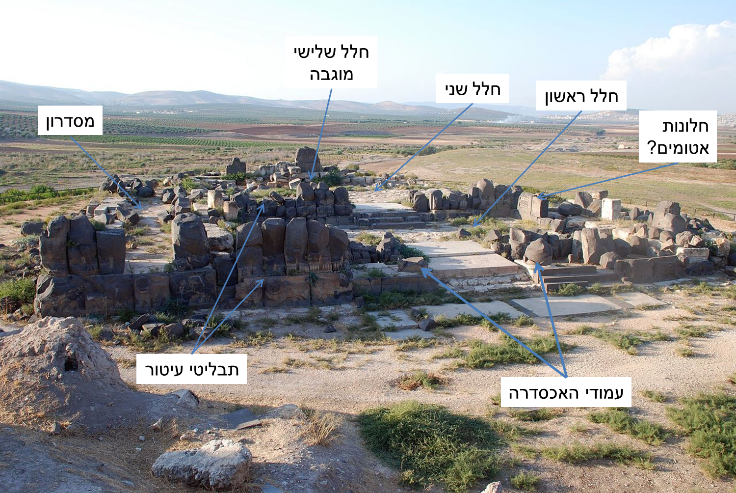 Ein Dara temple from the south